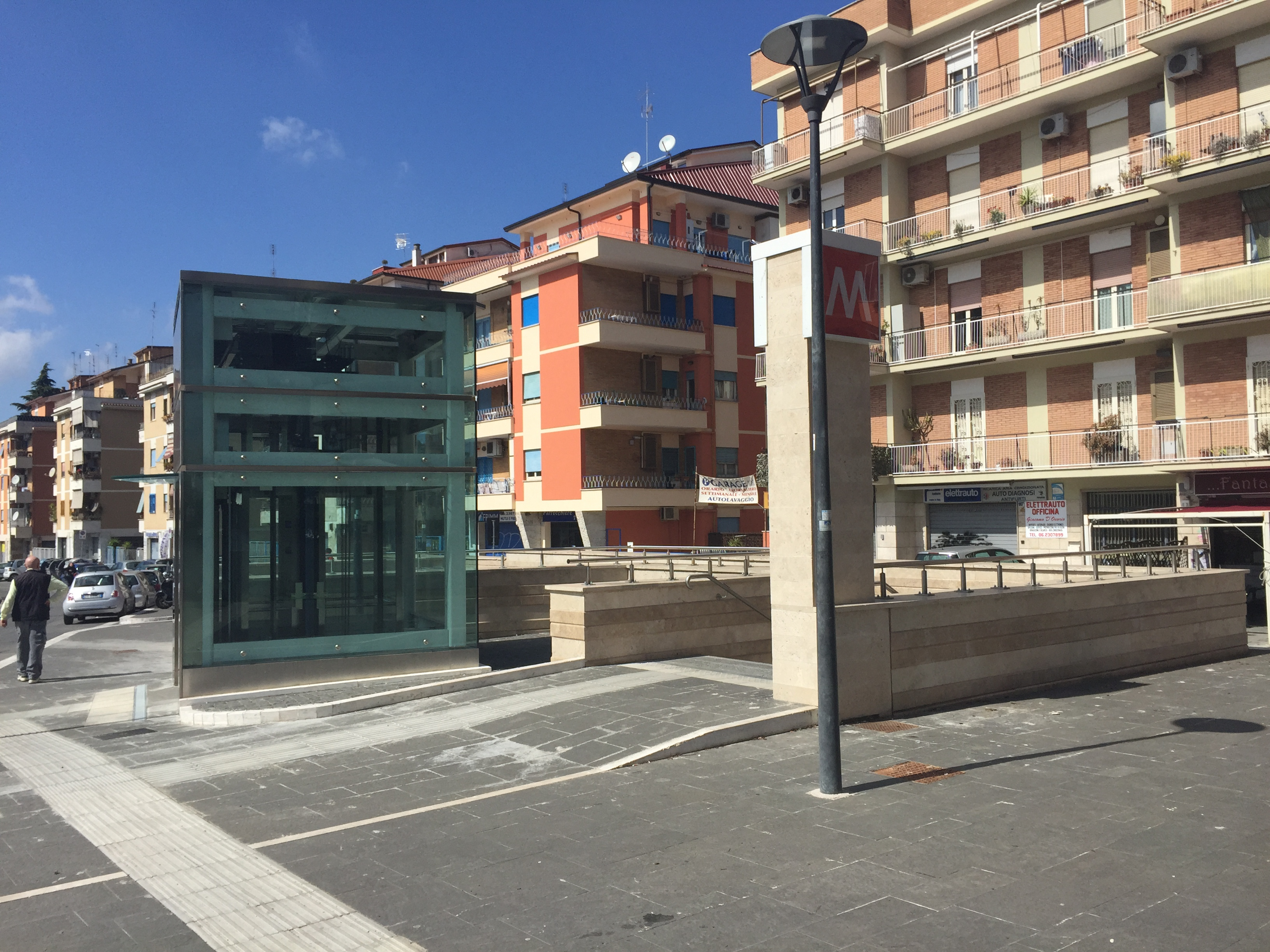 Entrata principale della stazione Alessandrino della metro c lato Via Casilina angolo Viale Alessandrino